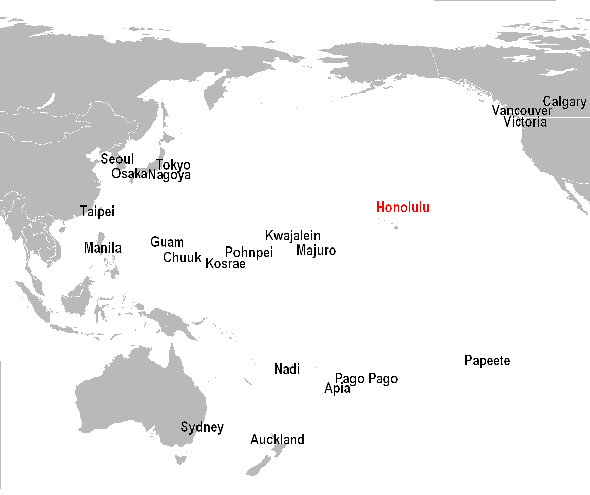 International cities with direct flights to HNL